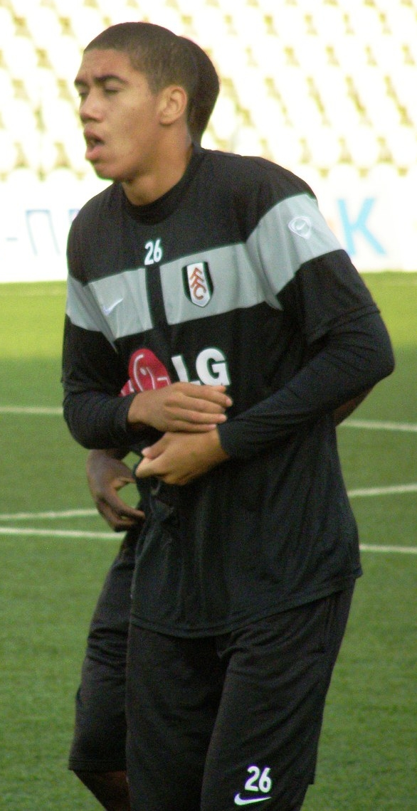 Chris Smalling training for Fulham F.C.